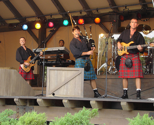 Off Kilter